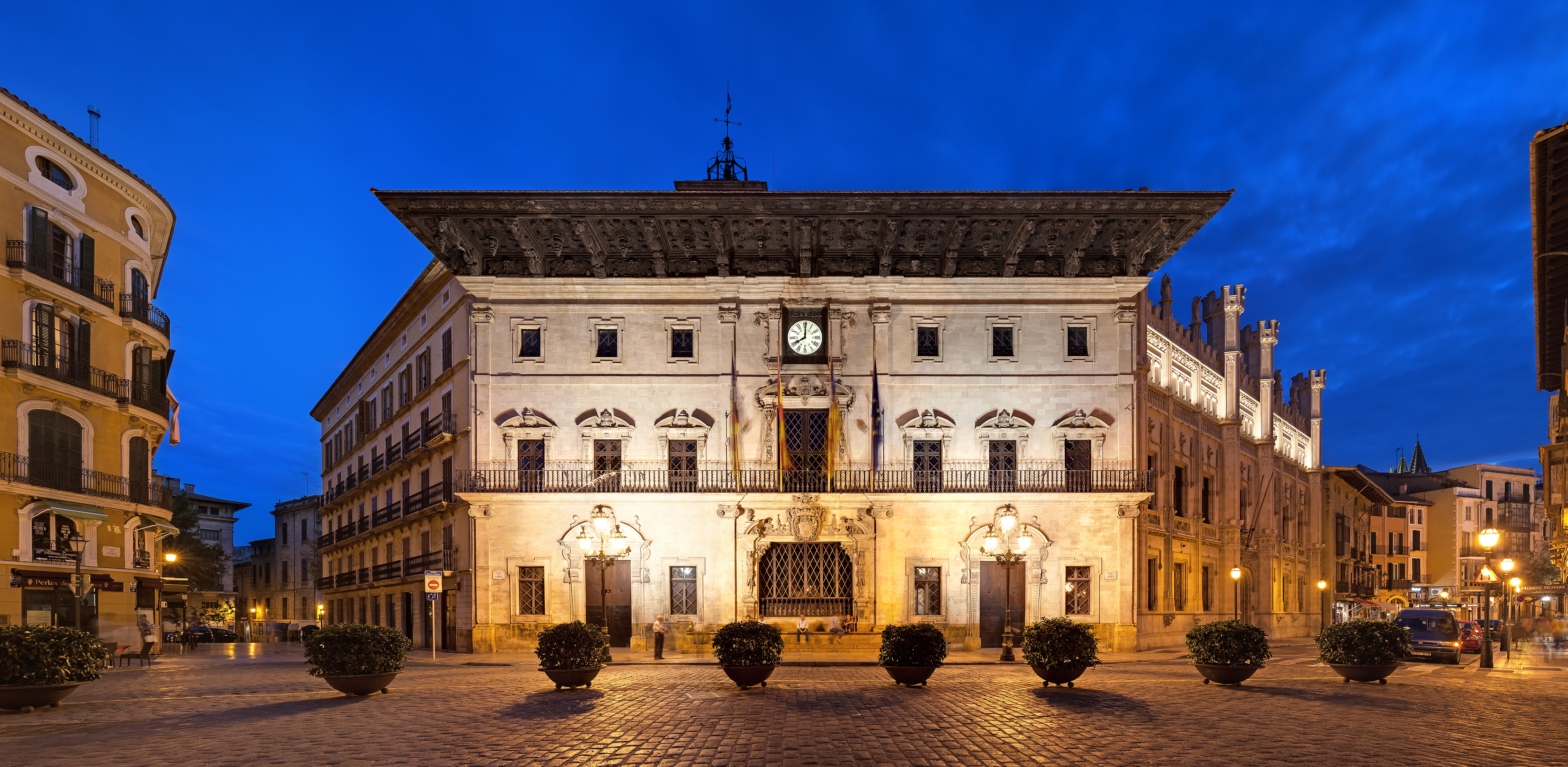 City Hall of Palma de Mallorca, Spain